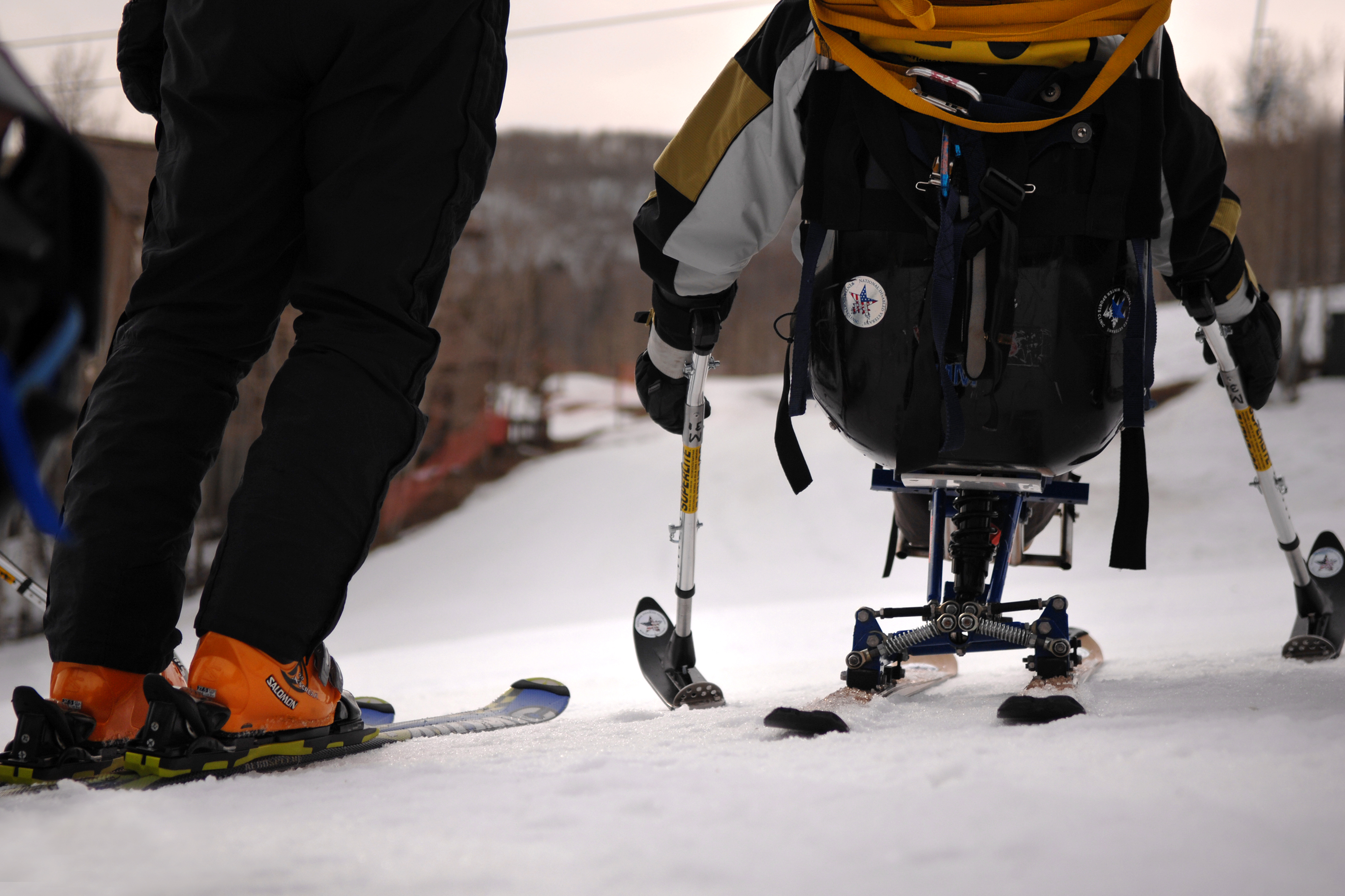 A disabled veteran sits in his ski sled (right) along side his instructor waiting to ski down to the lift during the National Disabled Veterans Winter Sports Clinic in Snowmass, Colo., April 3, 2007.